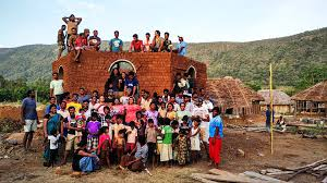 this picture about school